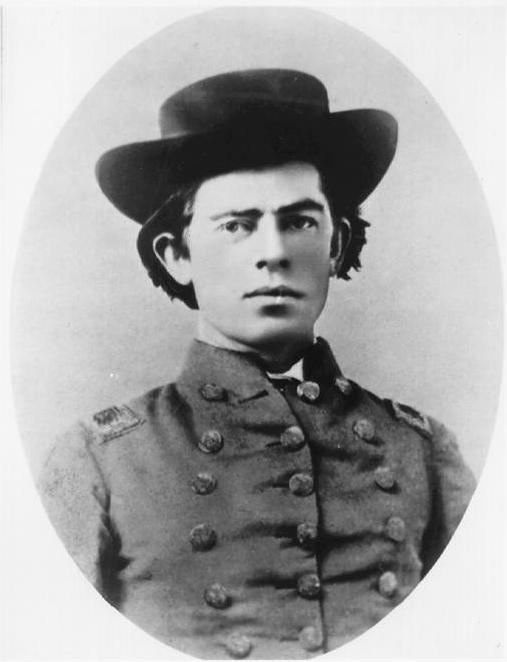 Lieuteant Omer Rose Weaver, was a member of the Pulaski Light Artillery, and is sometimes recognized as the first Arkansan to die in the Civil War. He was killed at the Battle of Wilson's Creek on August 6, 1861.